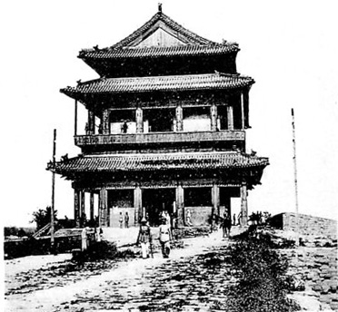 photo from Ein Tagebuch in Bildern